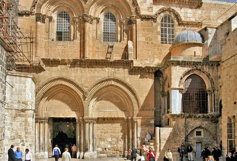 Main entrance Church of the Holy Sepulchre